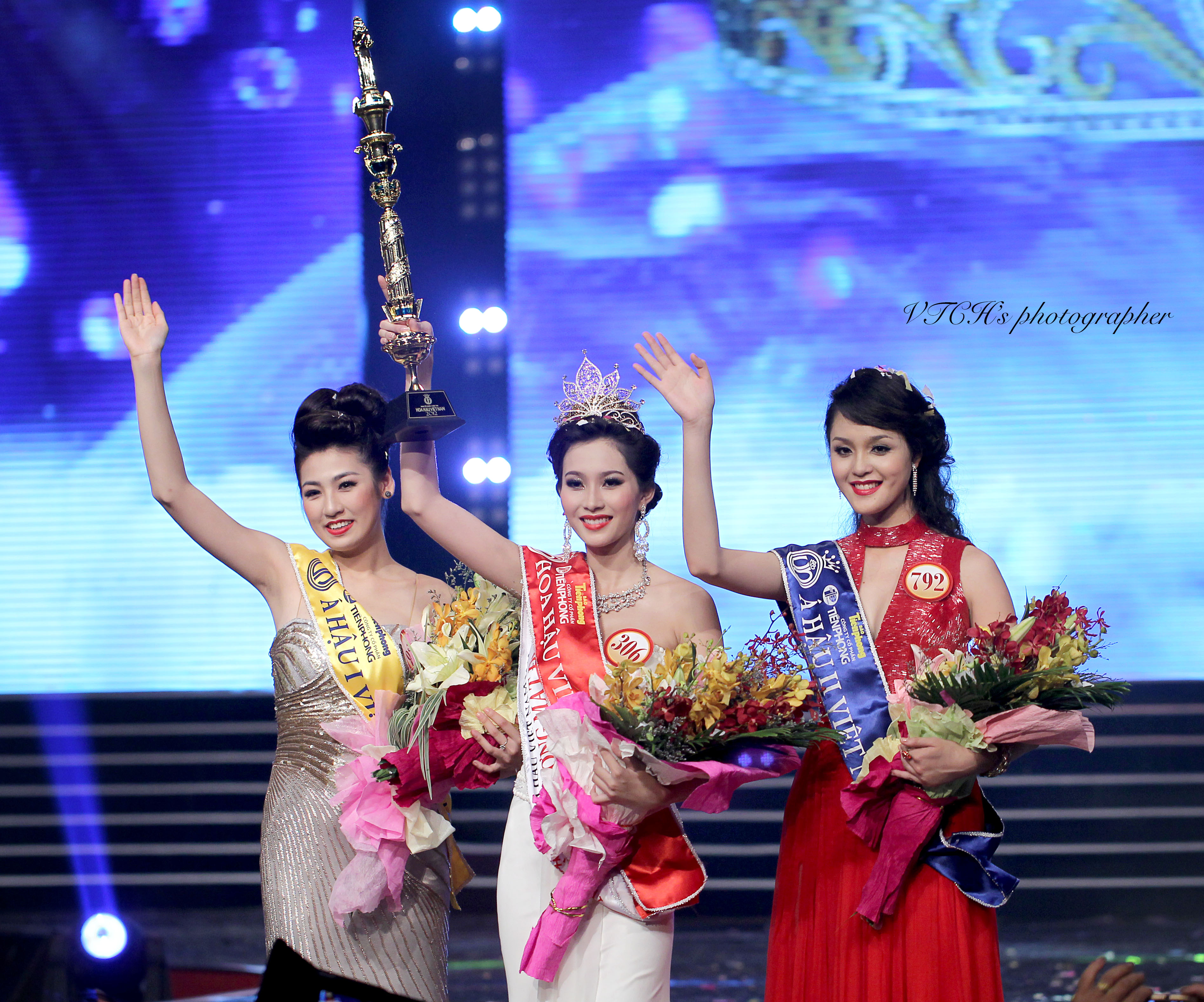 Please see full size - No PS